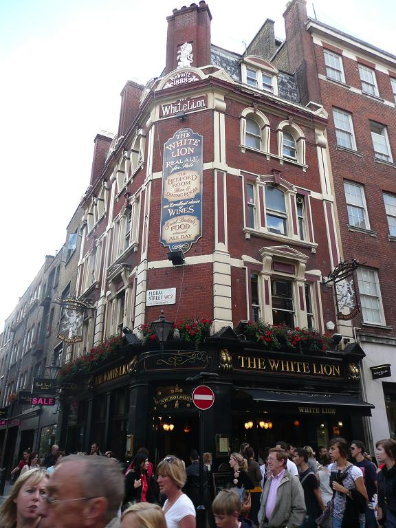 The White Lion in Covent Garden London 24 James Street, London, WC2E 8NS